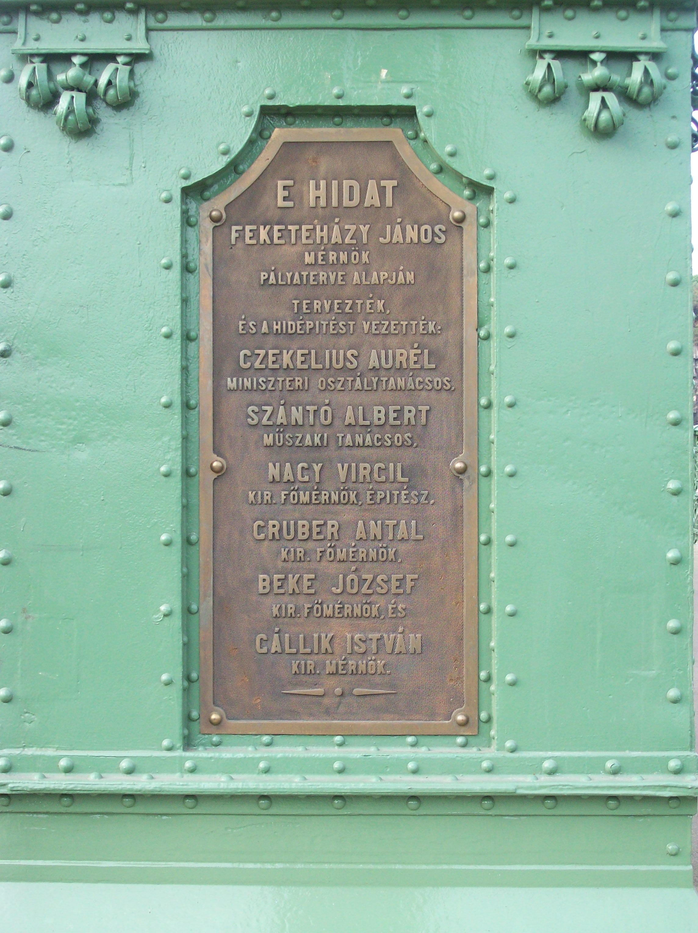 Panel on the Liberty Bridge in Budapest, Hungary.